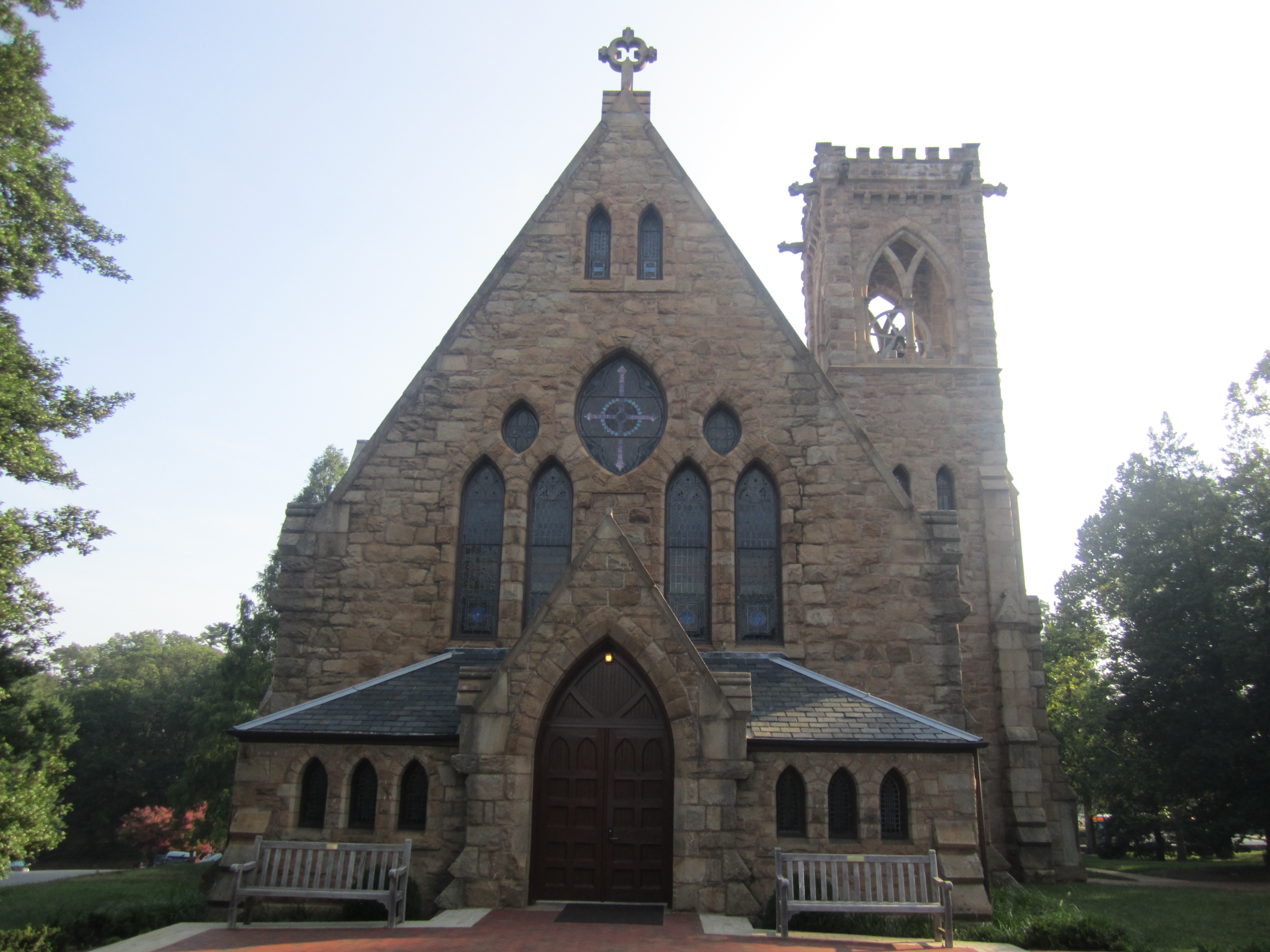 I took photo with Canon camera at the Univ. of VA.